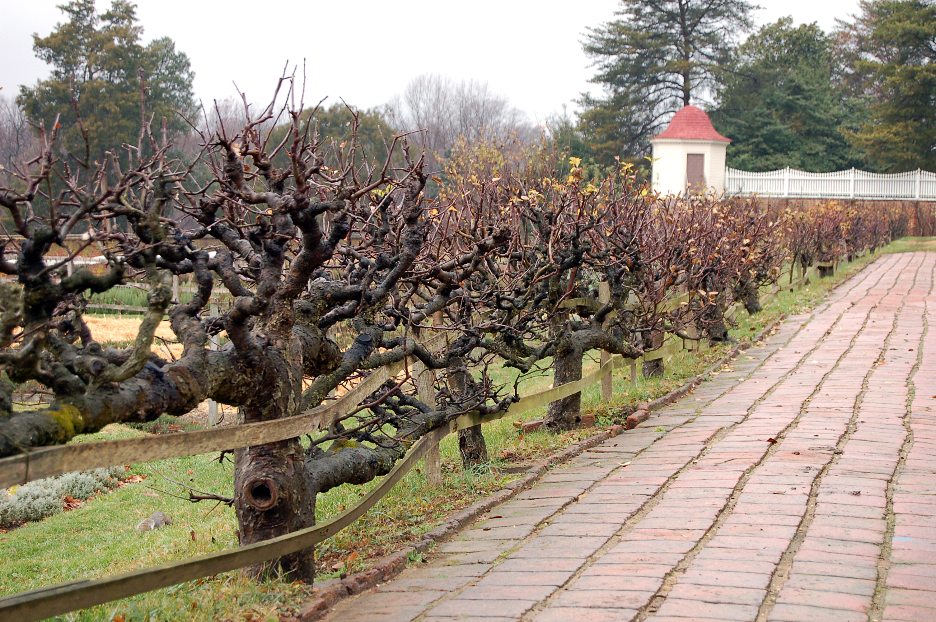 An espalier along a garden path at Mount Vernon. This espalier is in the form of a cordon. Cordons frequently border and help define walks and garden beds. Mount Vernon, located near Alexandria, Virginia, was the plantation home of the first President of the United States, George Washington.